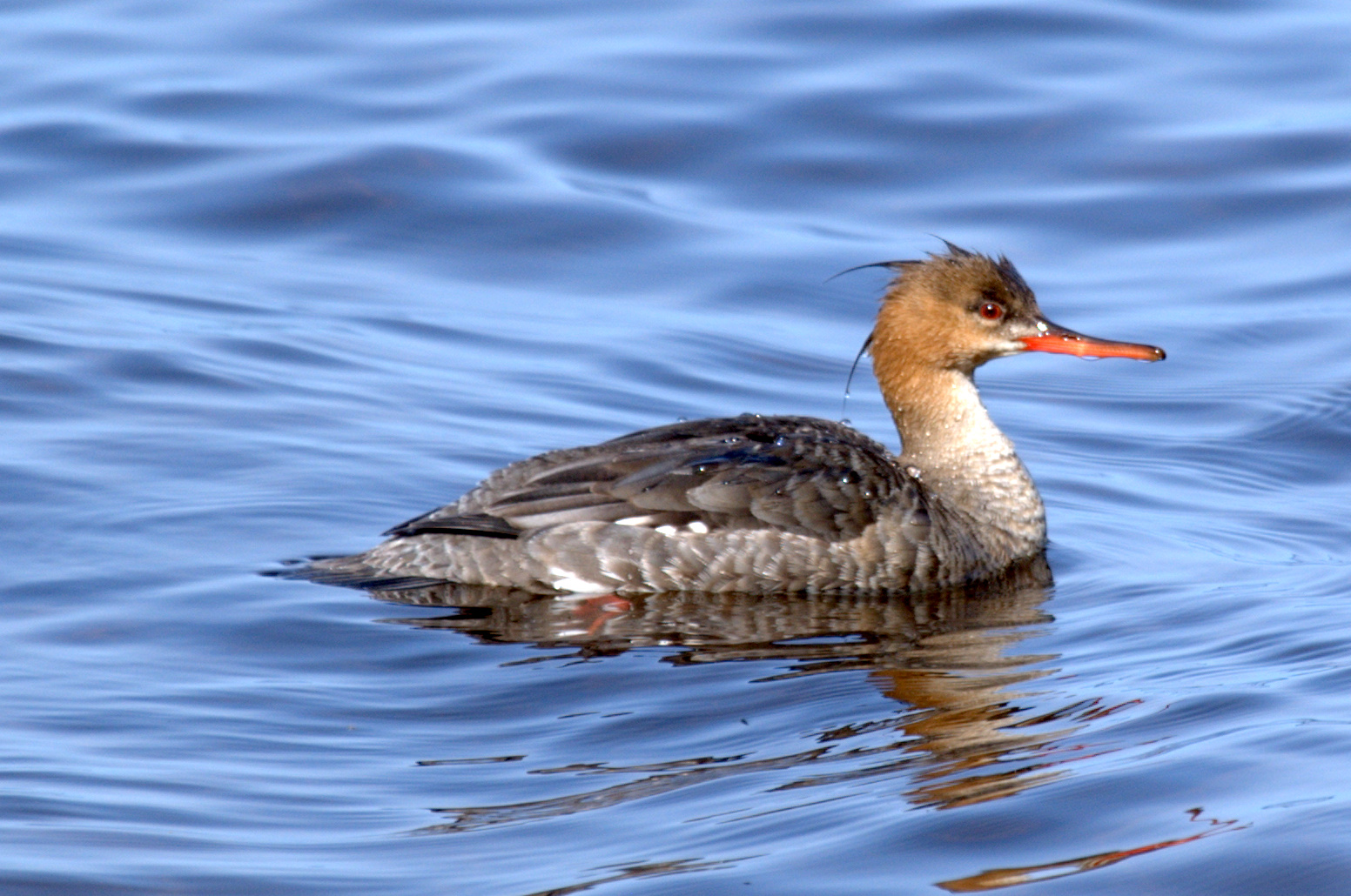 Female Mergus serrator.